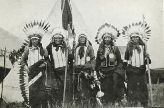 Major Israel McCreight, Chief Iron Tail and Chief Flying Hawk, 1911-1912. Other information From left to right: Lone Bear, American Horse, Iron Tail, Iron Cloud, Whirlwind. All Sioux Chiefs, taken by M.I. McCreight in Du Bois, PA, June 1908. This work is in the public domain because it was published in the United States between 1923 and 1963 and although there may or may not have been a copyright notice, the copyright was not renewed. Unless its author has been dead for the required period, it is copyrighted in the countries or areas that do not apply the rule of the shorter term for US works, such as Canada (50 pma), Mainland China (50 pma, not Hong Kong or Macao), Germany (70 pma), Mexico (100 pma), Switzerland (70 pma), and other countries with individual treaties. See Commons:Hirtle chart for further explanation.